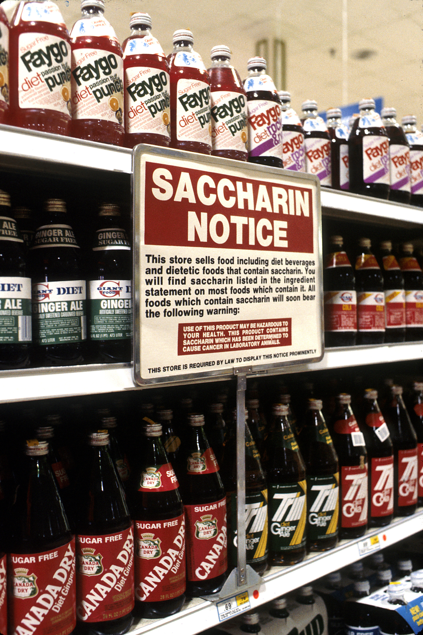 Title Saccharin Notice Description Rows of artificially sweetened sodas on a grocery shelf with a "saccharin warning label" in front of them. The legal banning of artificially sweetened products was prevented by consumer pressure. FDA warning labels are on such products and the consumer must make a personal decision about using these products containing saccharin. In 1997 the FDA was considering taking saccharin off the list of possible carcinogens. Topics/Categories Risk Factors and Causes Type Color, Photo Source National Cancer Institute